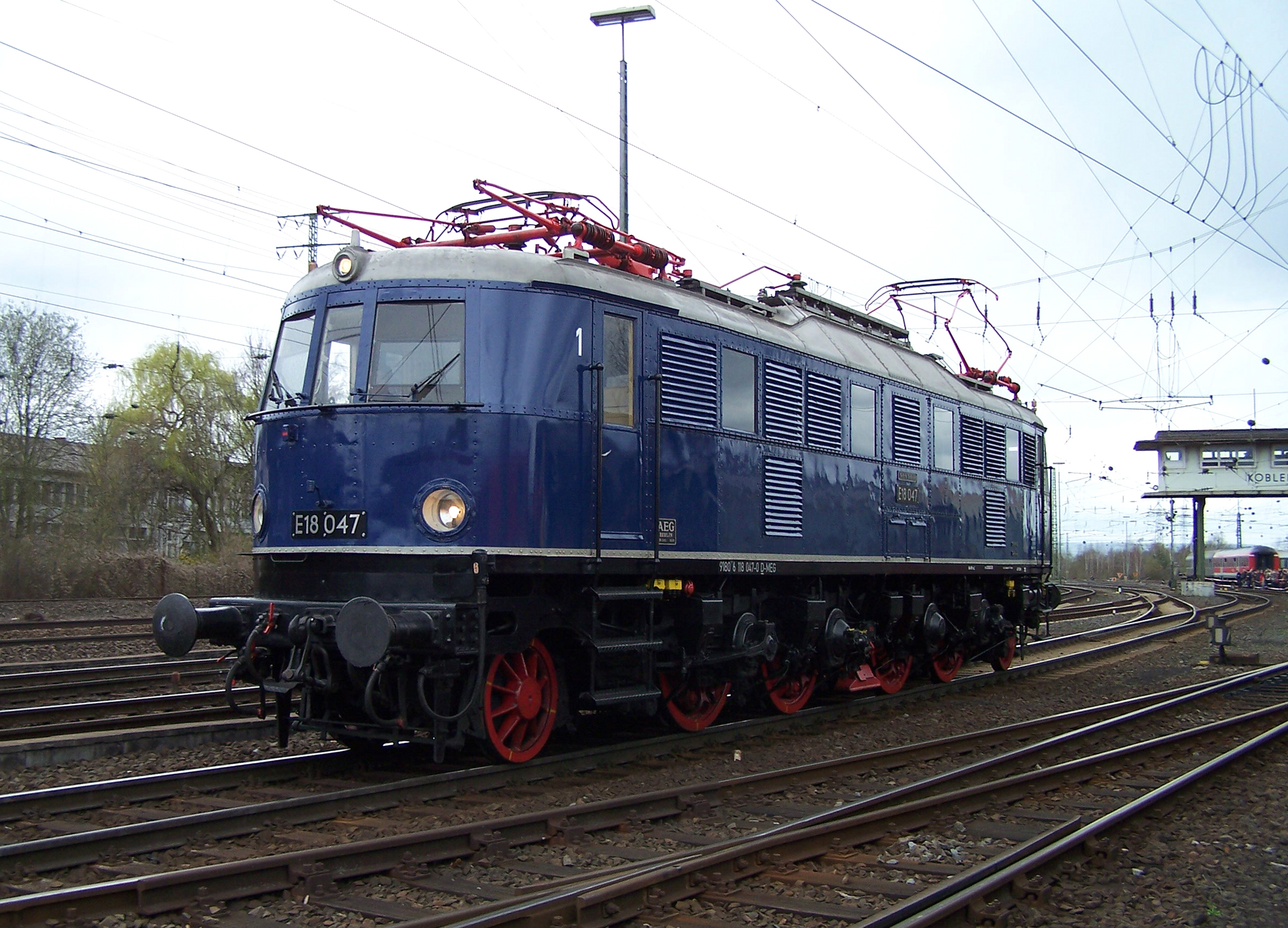 Electric locomotive E18 047 during a locomotive parade at the DB Museum in Koblenz-Lützel, a local branch of the Transport Museum in Nuremberg, April 2010